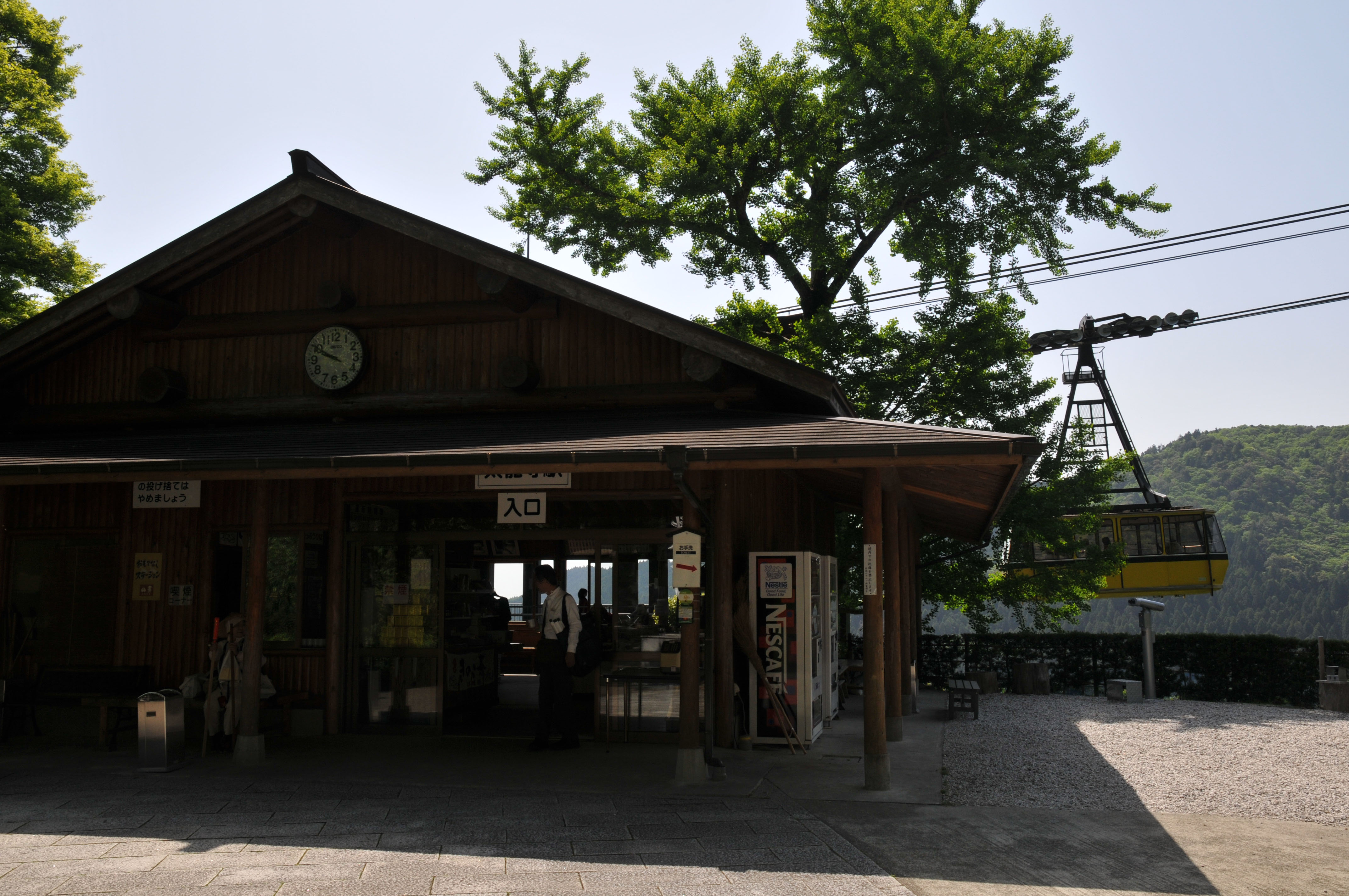 Tairyuji station, Tairyuji ropeway